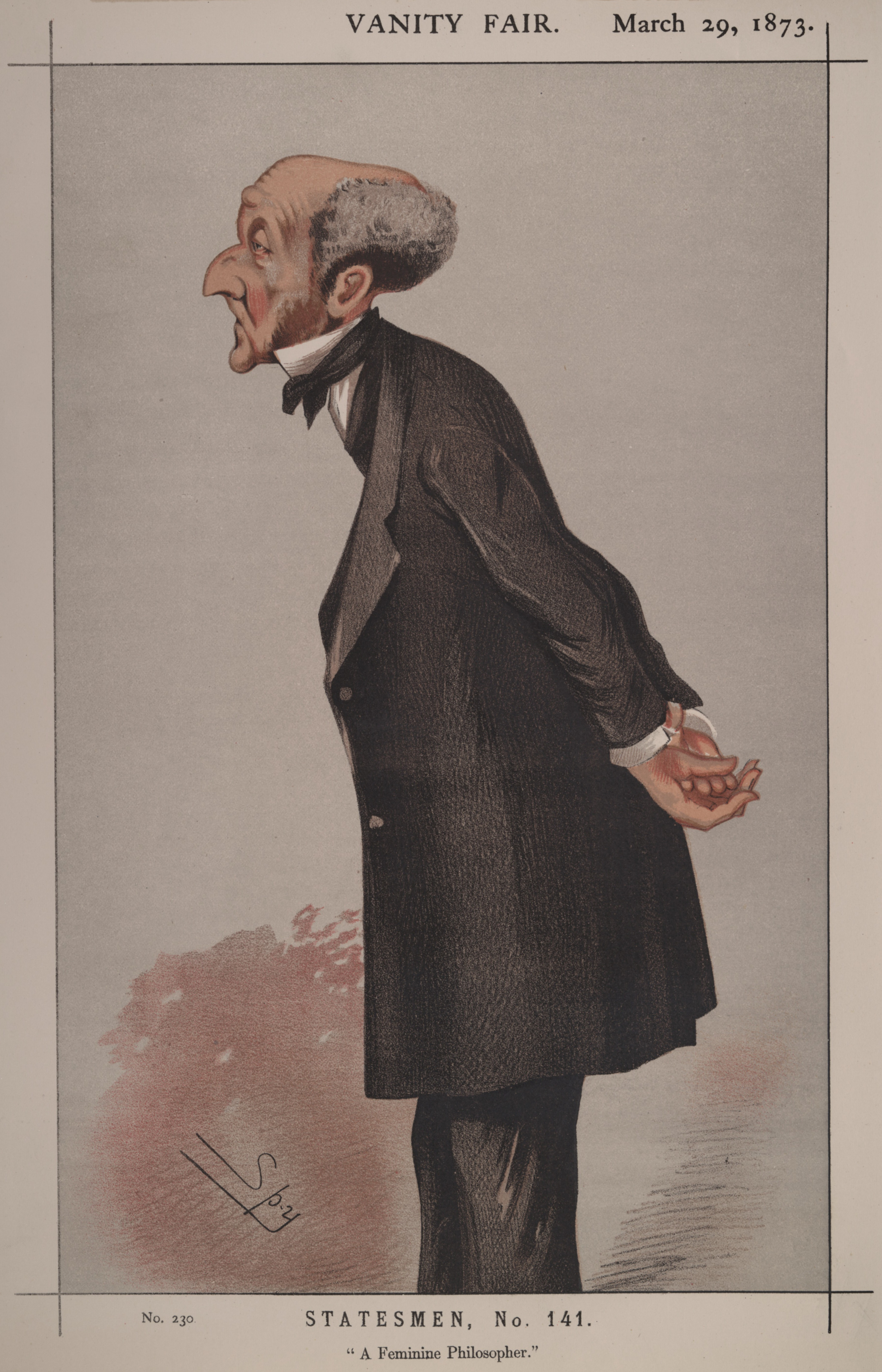 Statesmen No.141: Caricature of Mr John Stuart Mill MP. Caption reads: "A Feminine Philosopher"